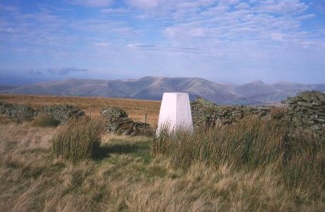 Aye Gill Pike. Summit of Rise Hill, north of Dentdale.